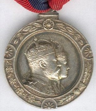 Mayor's and Provost's Medal for King Edward VII's Coronation 1902, obverse